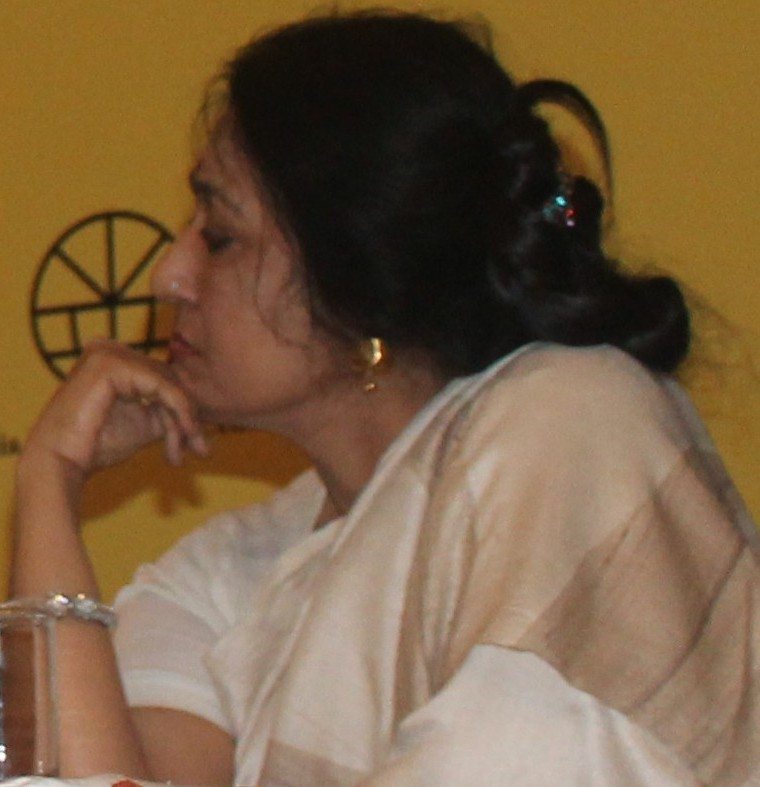 Indian poet Anamika during SAARC Festival of Literature 2017 in New Delhi